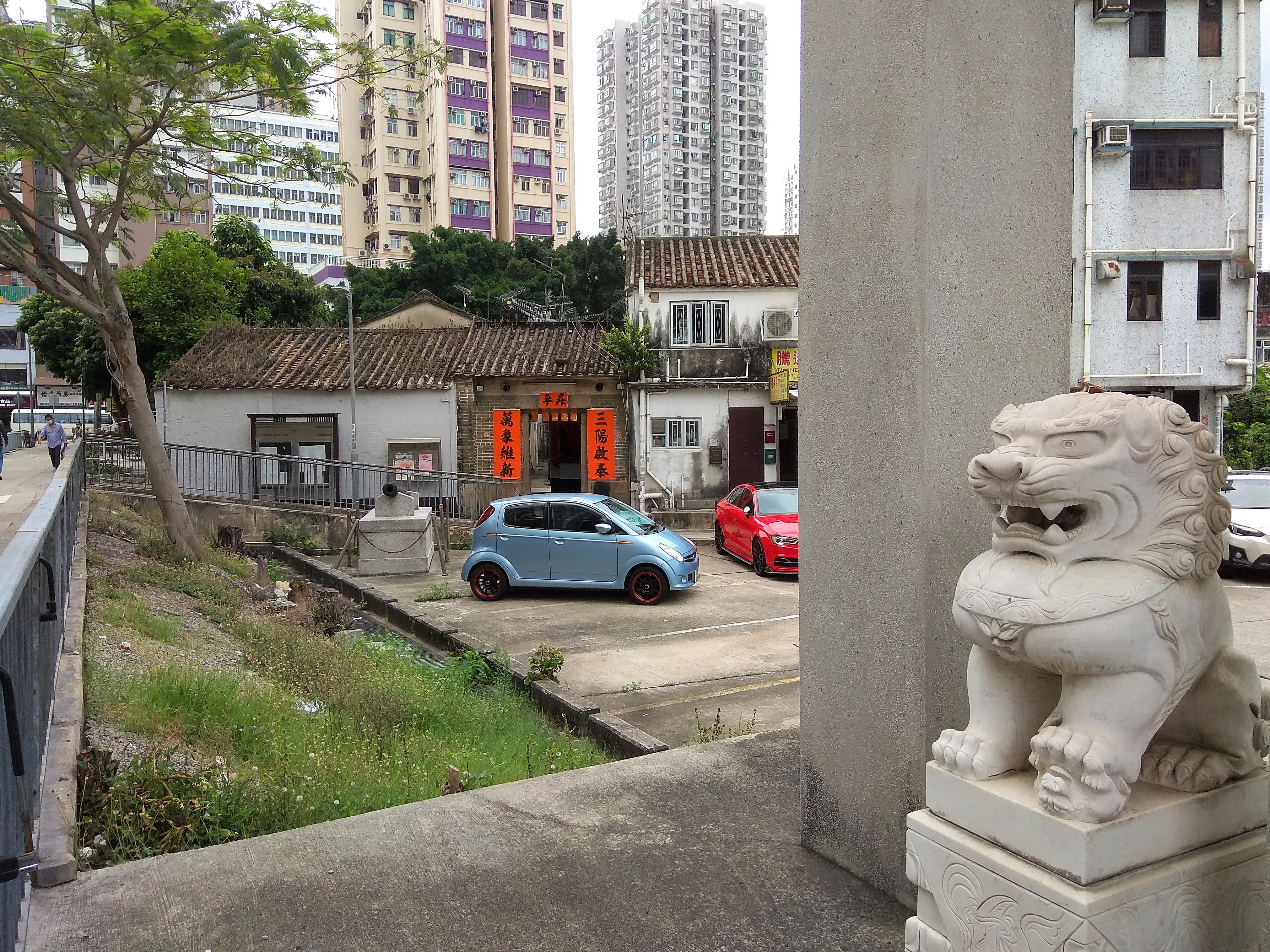 Tai Kiu Tsuen